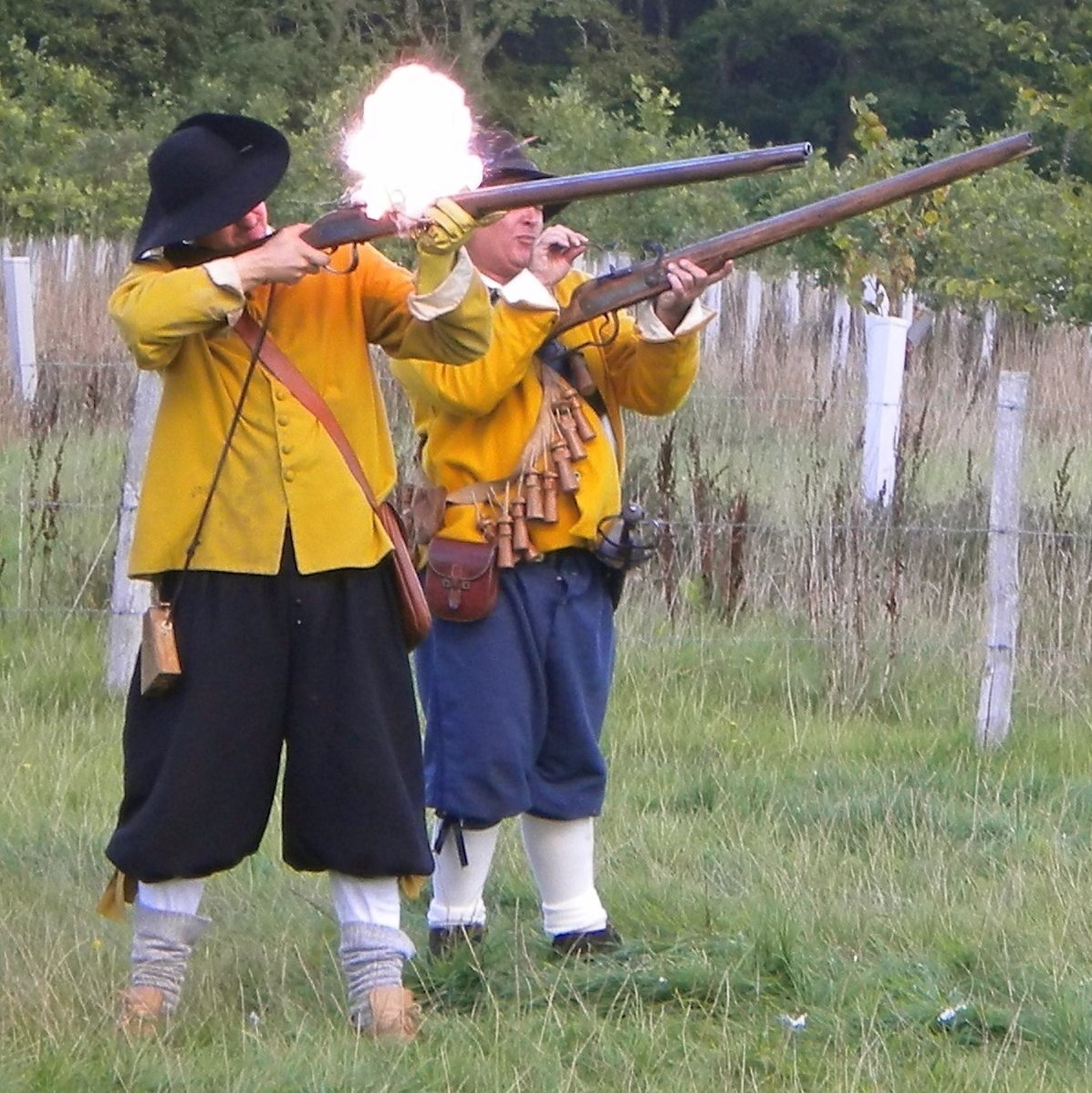 Members of the Sealed Knot demonstrate matchlock firing. The priming charge has fired but not yet the main charge. At Fernhurst Furnace, West Sussex, England.